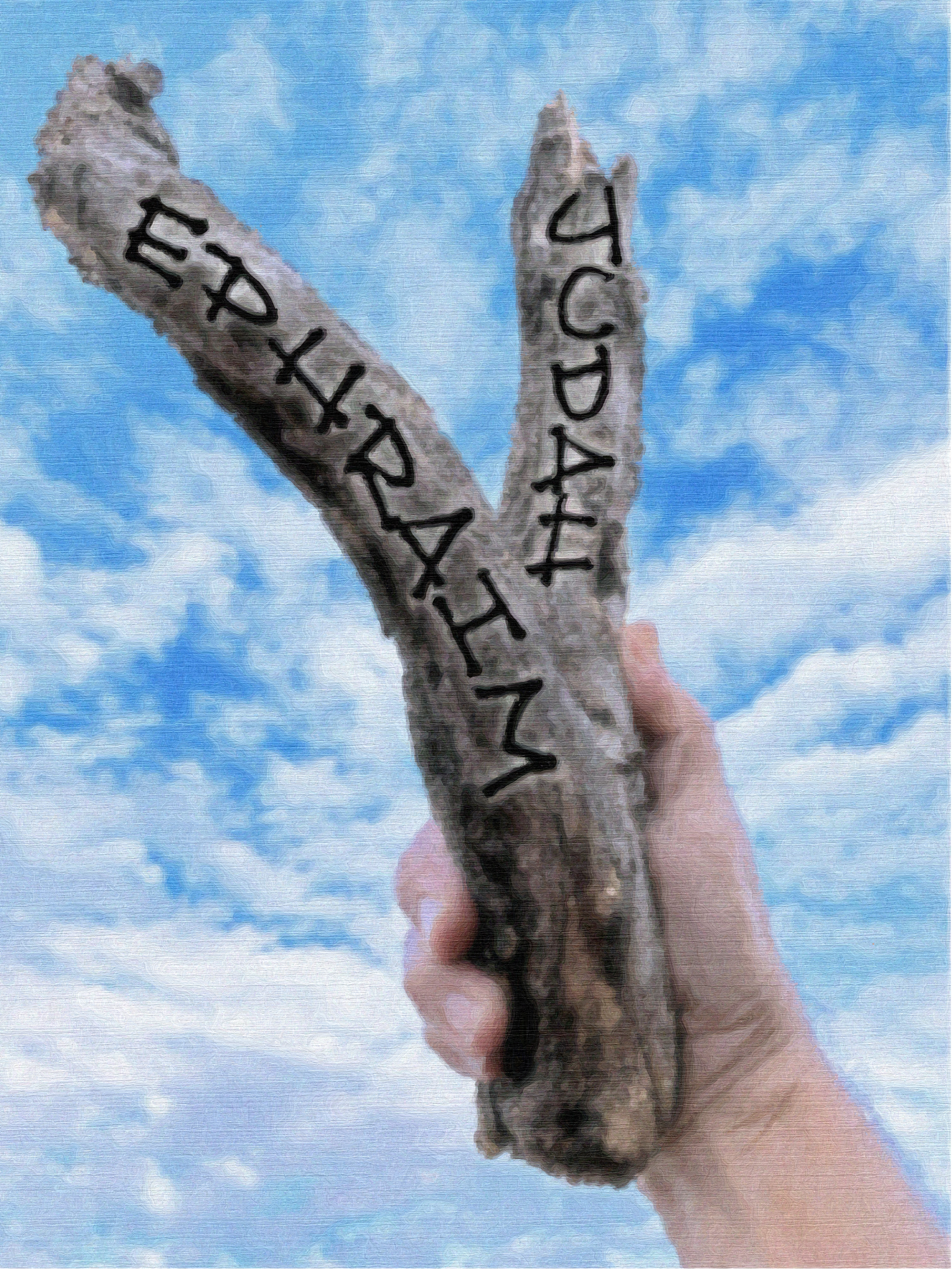 Depiction of Ezekiel 37:16-22. As for you, son of man, take a stick for yourself and write on it: "For Judah and for the children of Israel, his companions." Then take another stick and write on it, "For Joseph, the stick of Ephraim, and for all the house of Israel, his companions." Then join them one to another for yourself into one stick, and they will become one in your hand. And when the children of your people speak to you, saying, "Will you not show us what you mean by these?"— say to them, "Thus says the Lord God: 'Surely I will take the stick of Joseph, which is in the hand of Ephraim, and the tribes of Israel, his companions; and I will join them with it, with the stick of Judah, and make them one stick, and they will be one in My hand.’" And the sticks on which you write will be in your hand before their eyes. Then say to them, "Thus says the Lord God: 'Surely I will take the children of Israel from among the nations, wherever they have gone, and will gather them from every side and bring them into their own land; and I will make them one nation in the land, on the mountains of Israel; and one king shall be king over them all; they shall no longer be two nations, nor shall they ever be divided into two kingdoms again.'"